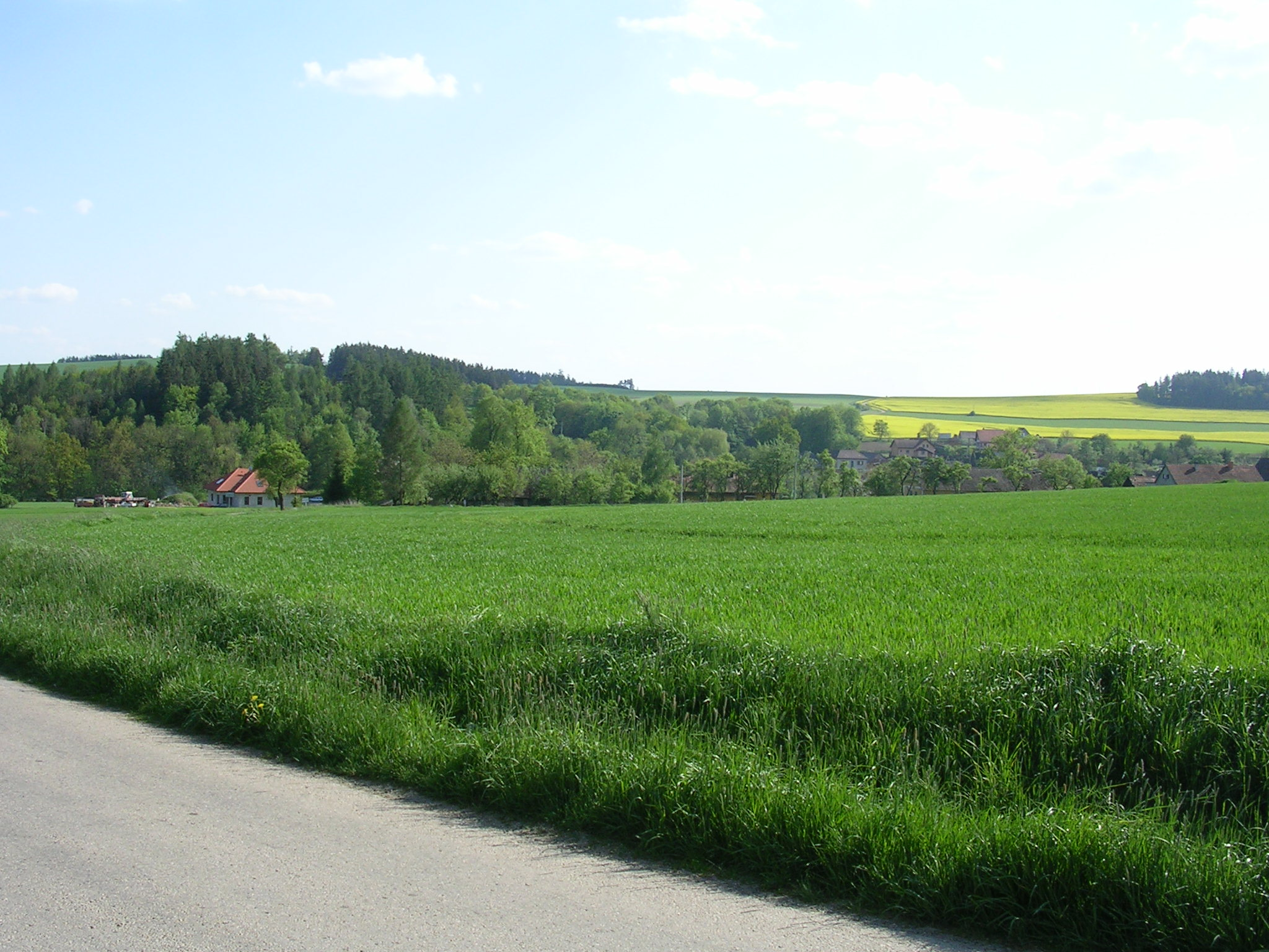 Veliš-Nespery, Central Bohemian Region, the Czech Republic.